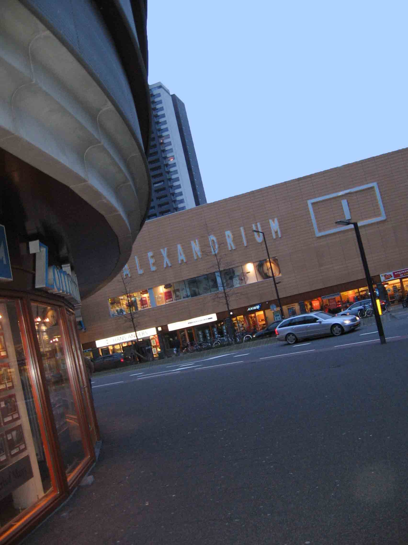 Shopping area Alexandrium in Rotterdam